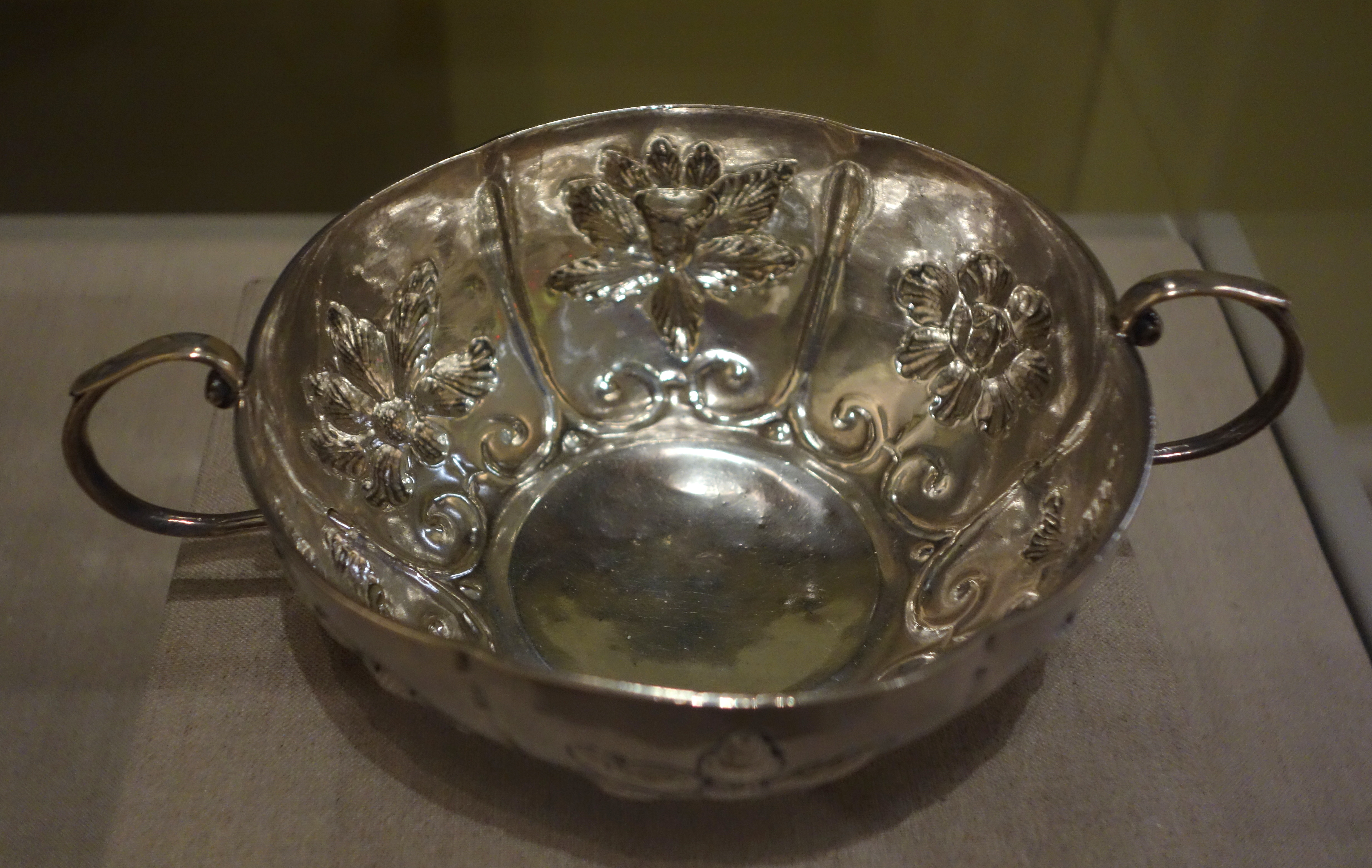 Exhibit in the Albany Institute of History and Art, Albany, New York, USA. This artwork is in the public domain because the artist died more than 70 years ago.